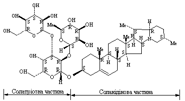 The structure of the molecule of solanine